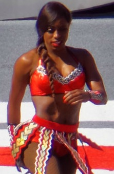 Naomi At WrestleMania 31 in 2015.